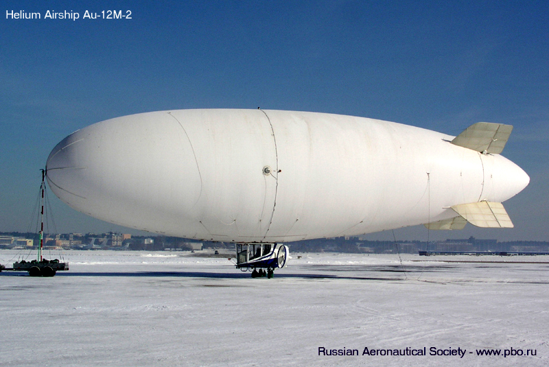 Helium Ayrship Au-12M-2 Sterkh